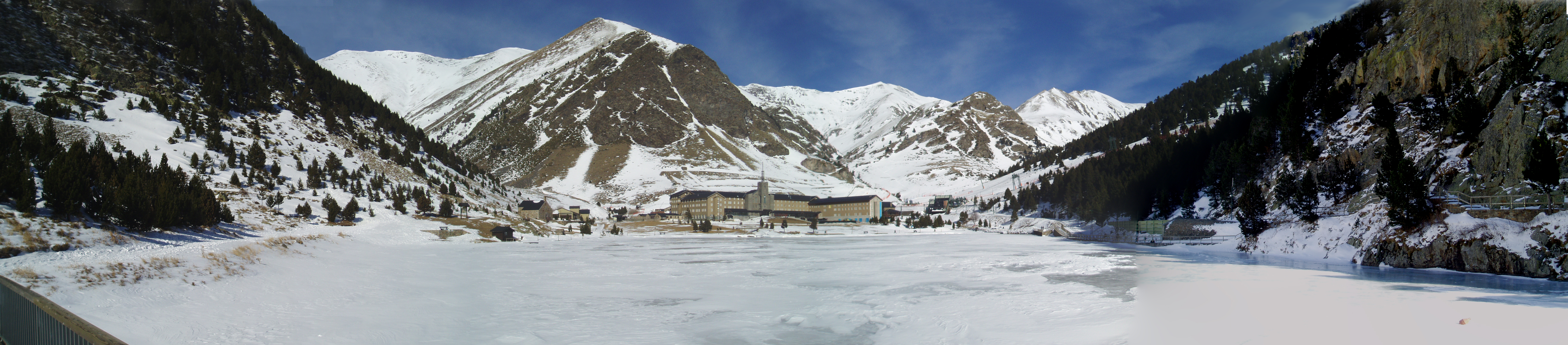 View of the Sanctuary of Núria